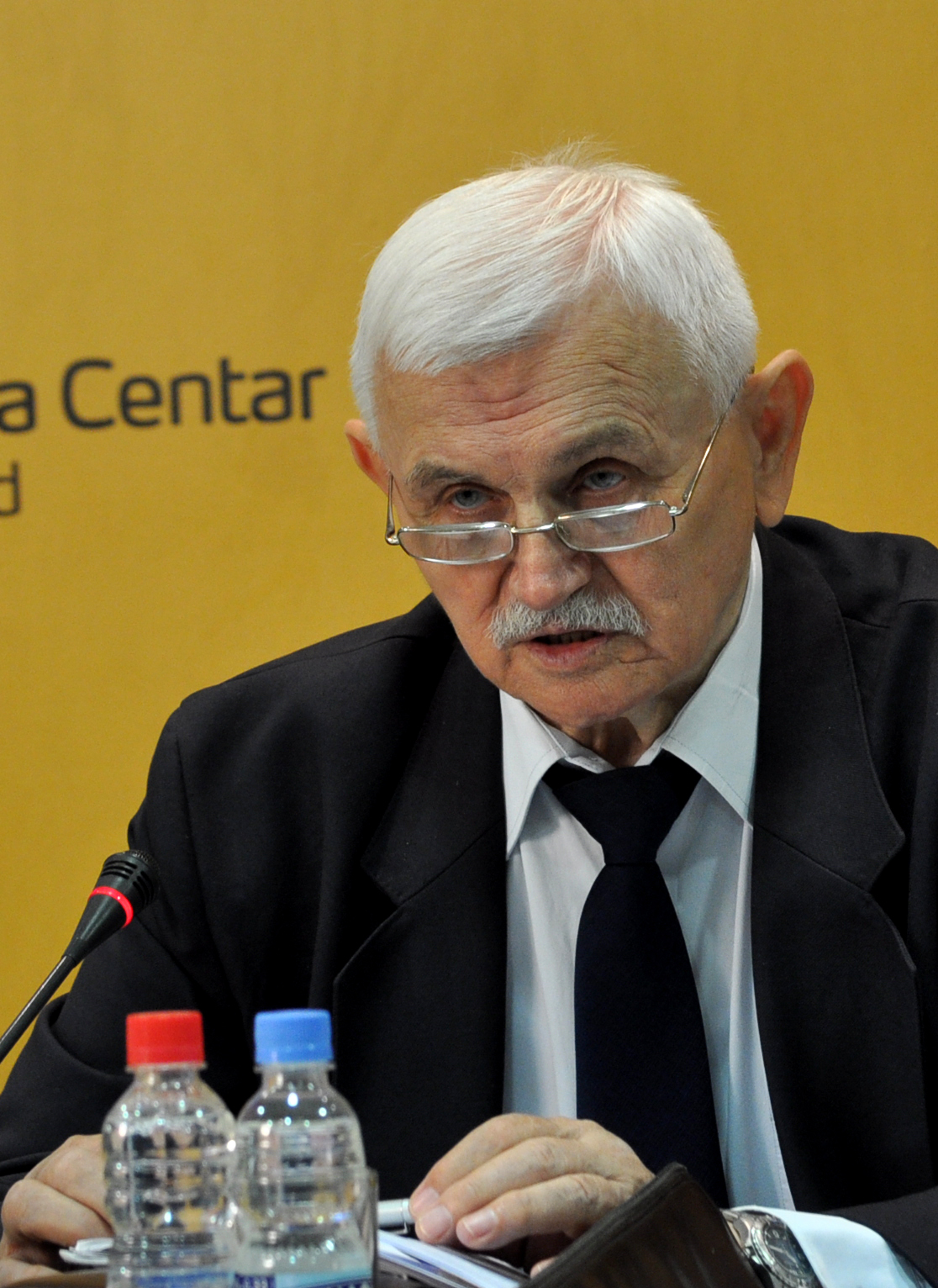 Andrija Rašeta (1934-)